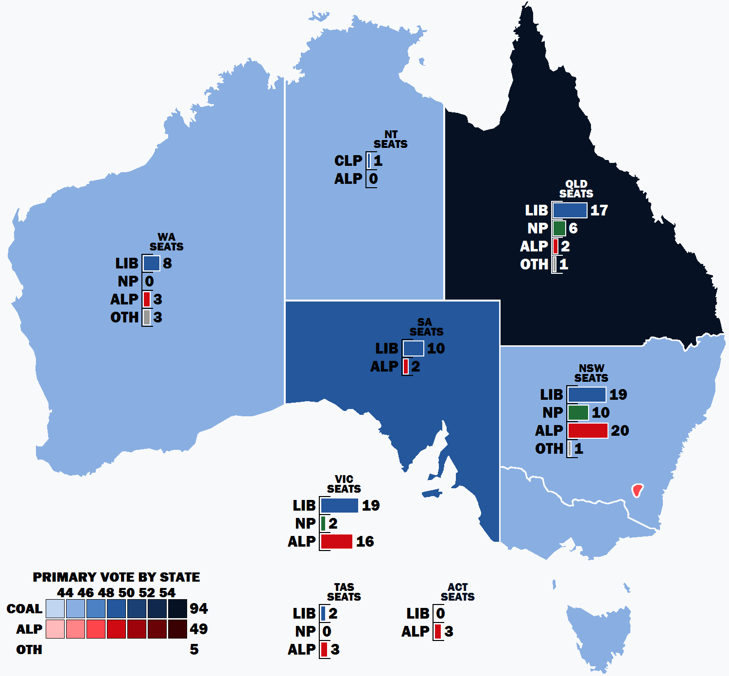 Result of the primary vote by state and territory in the 1996 Australian federal election.